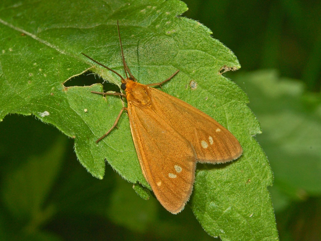 Arctiidae - Dysauxes ancilla